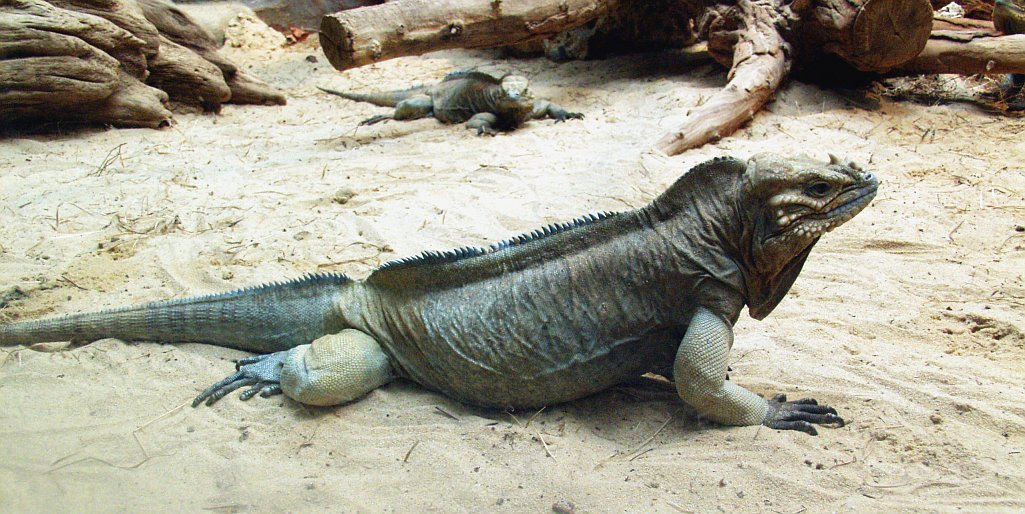 Cyclura cornuta (Rhinocerous iguana) at Aquazoo-Löbbecke-Museum Düsseldorf